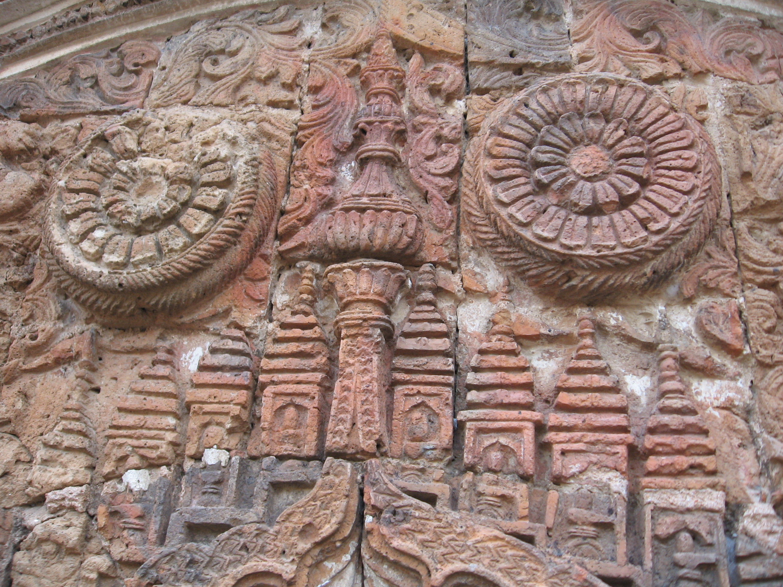 Terracota carvings in temple in Nanoor, Birbhum